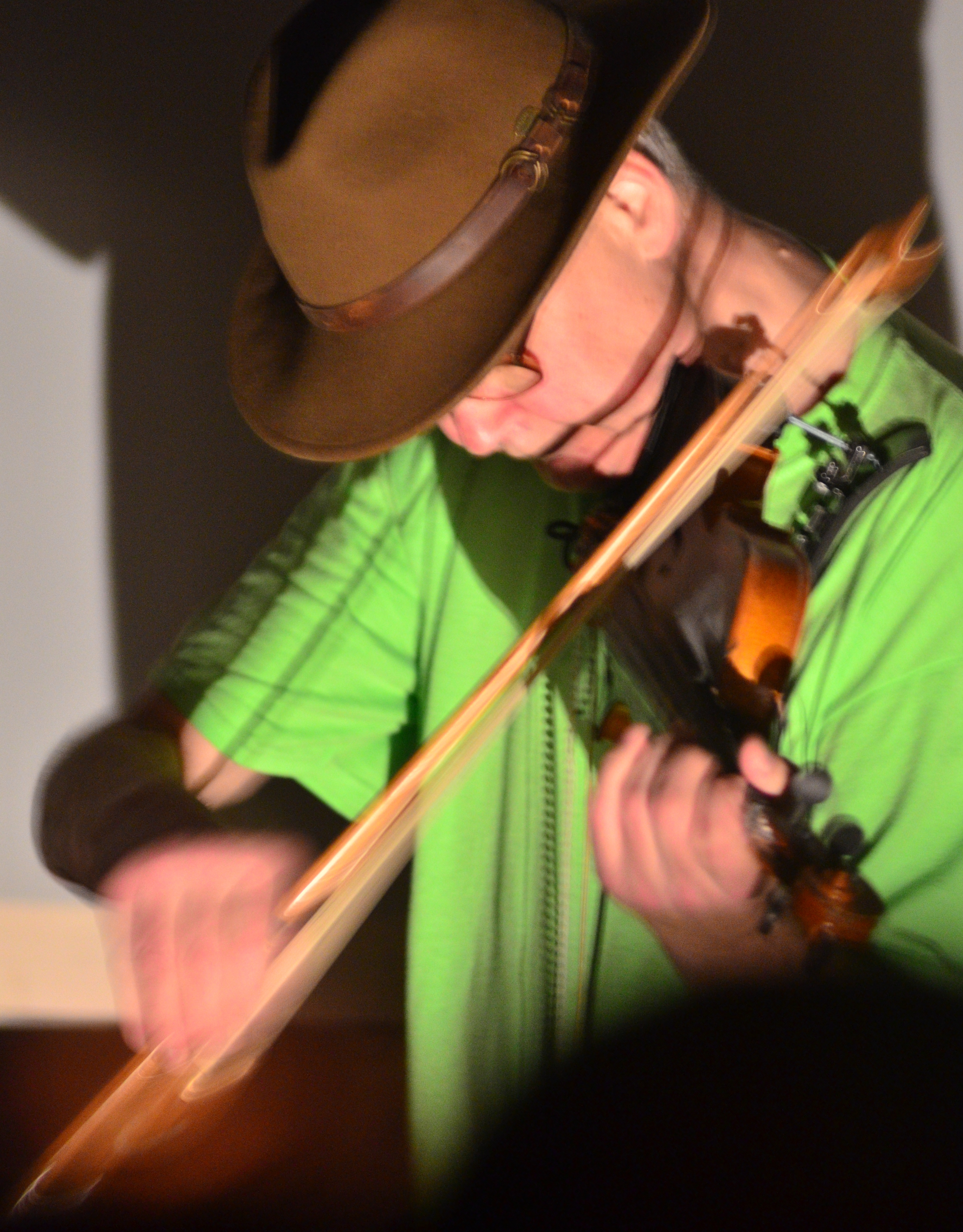 Tony Conrad, Eglise St Merri, Paris, Sonic Protest 2012